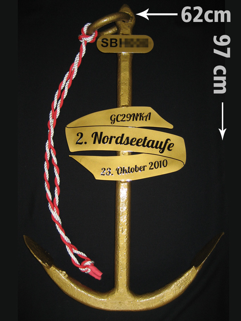 The world's largest geocoin was made for the Geocaching-Event "Nordseetaufe 2010". The handmade coin looks exactly like the small official Eventcoins. It's weight is about 40kg.